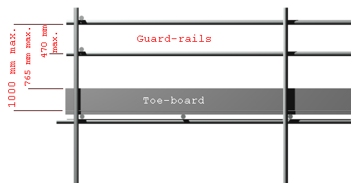 Scaffolding